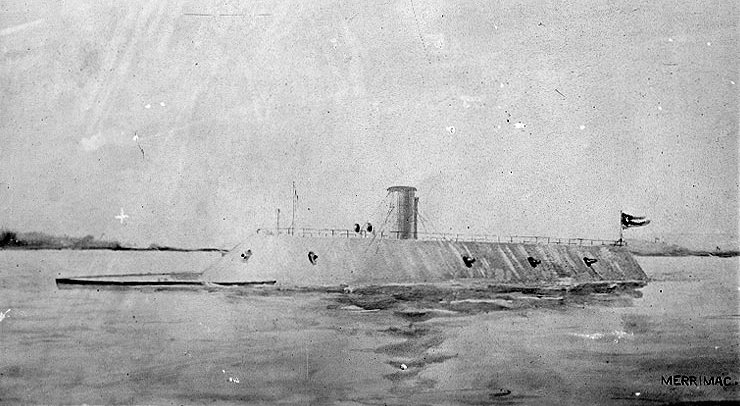 CSS Virginia Caption text: "Photo # NH 61676 Artwork of CSS Virginia"